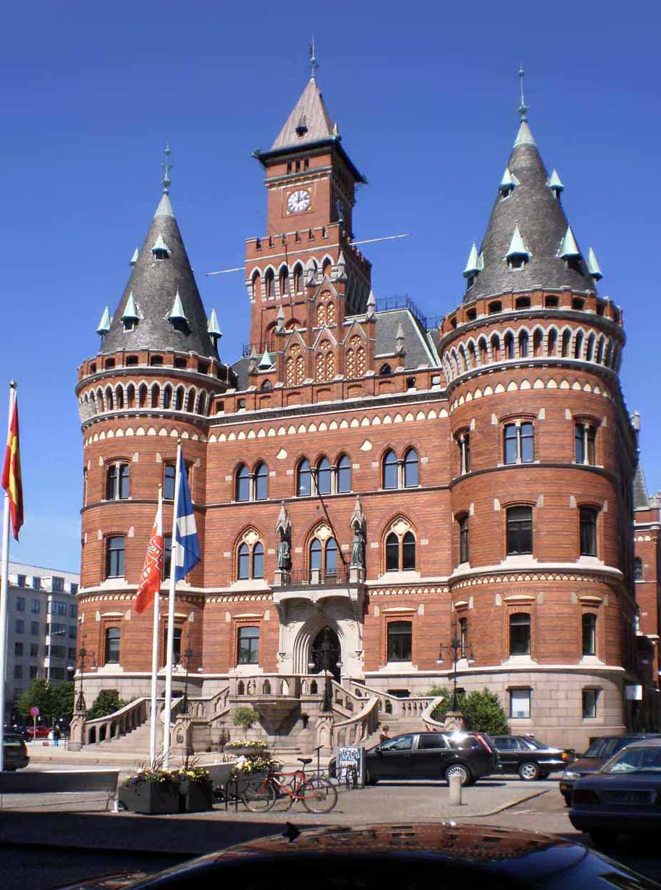 Helsingborg 2010